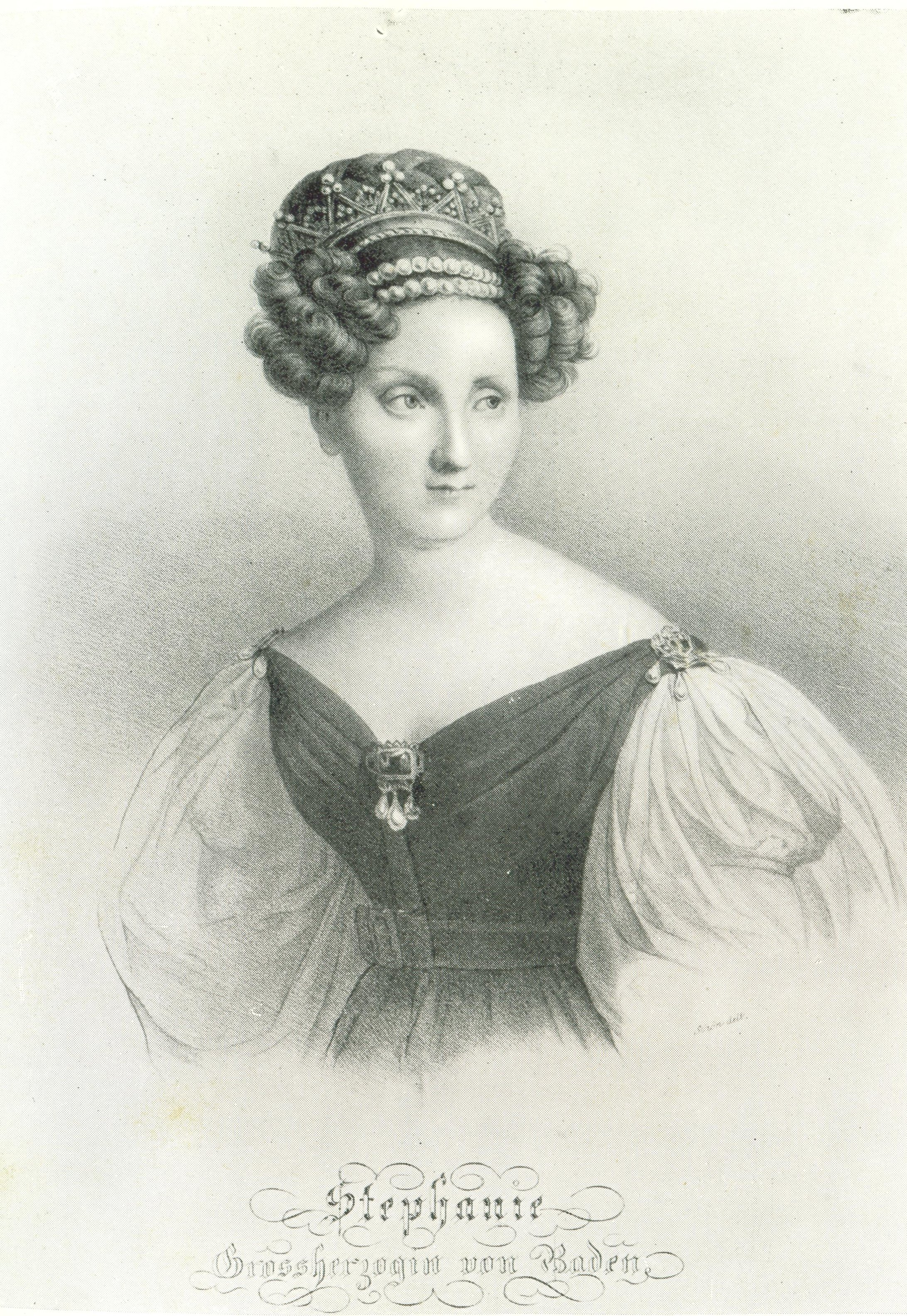 A portrait of the Grand-Duchess Stephanie of Baden